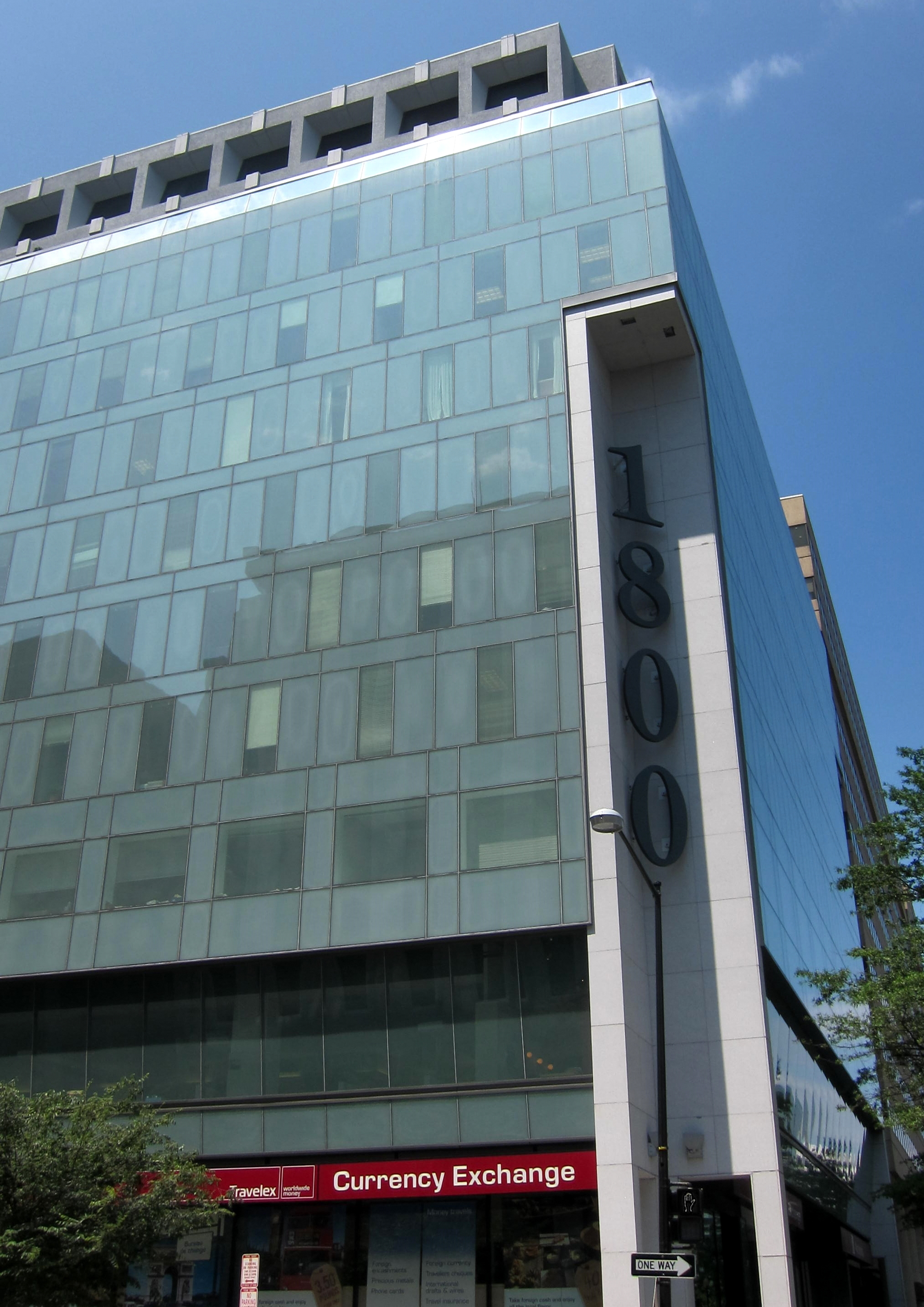 1800 K Street, N.W., (also known as the International Club Building) located in downtown Washington, D.C. The 11-story, modern office building was constructed in 1970 to the designs of Holle & Lin Architects. Tenants include the Center for Strategic and International Studies, The Washington Quarterly, PATH, Bridging Nations, and the Korea Economic Institute.